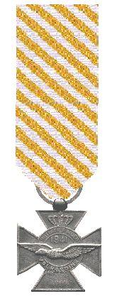 Air Force Cross, The Netherlands 1941 - present